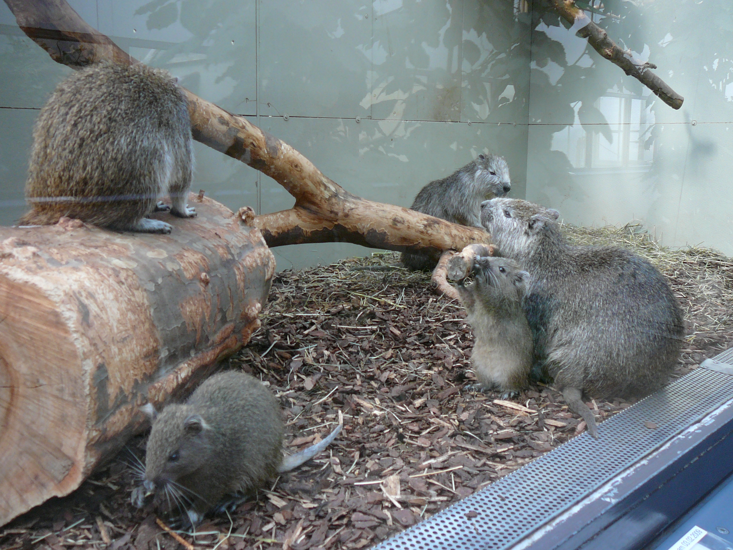 Family of Desmarest's Hutia (Capromys pilorides). Wilhelma zoo in Stuttgart, Germany, Europe.